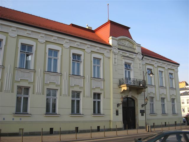 Provincial and Municipal Public Library in Rzeszow